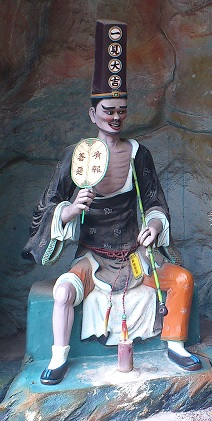 Statue of the Ghost of Impermanence (left) at Haw Par Villa, Singapore